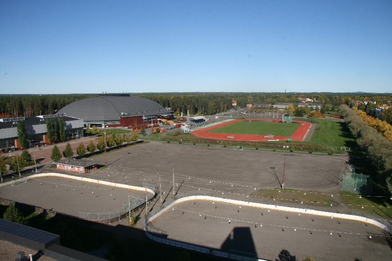 Joensuu Mehtimäki sport area